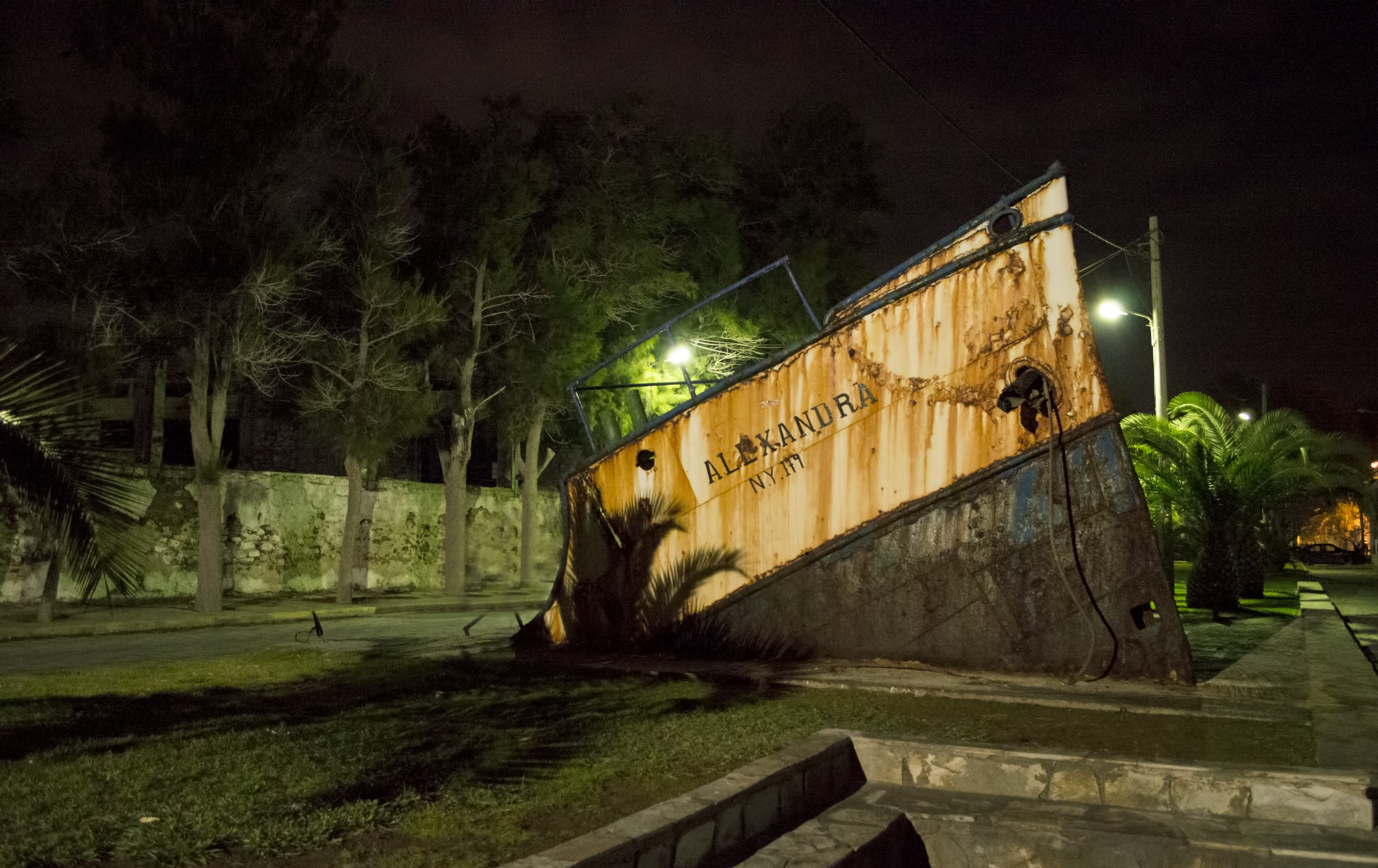 Elefsina, Greece